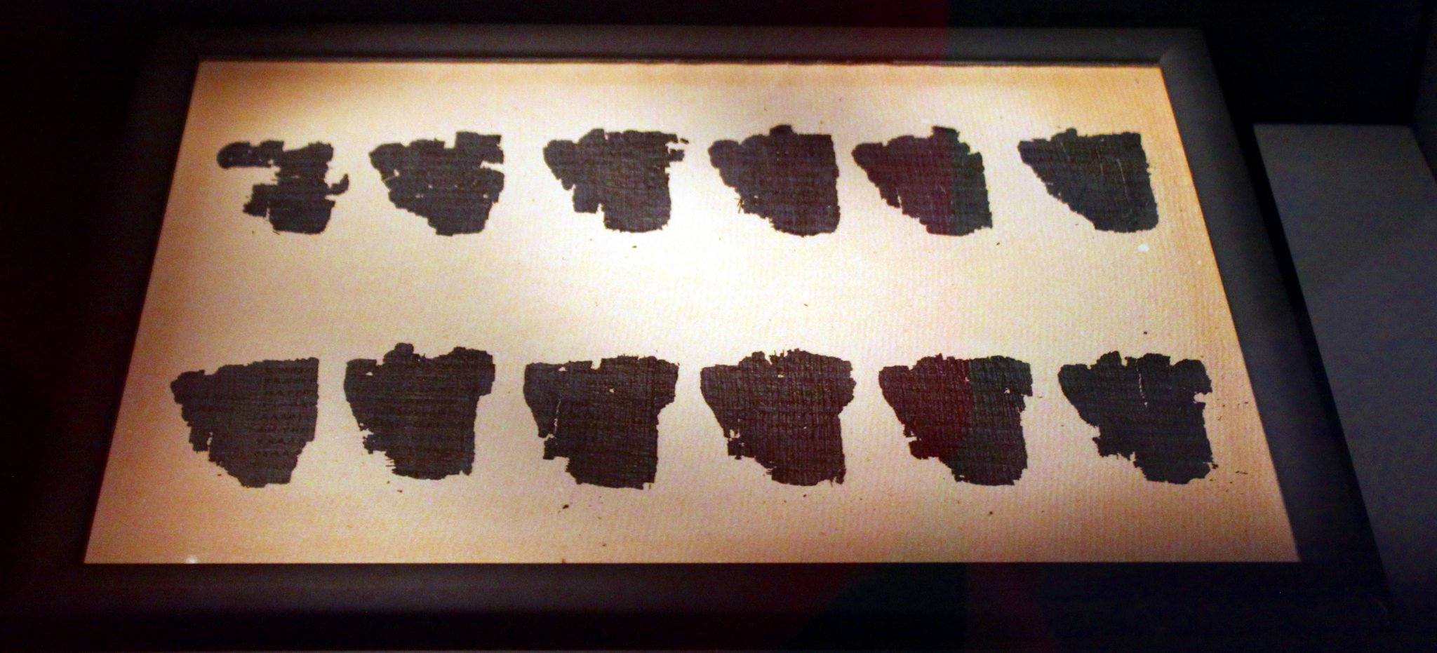 This is a Greek Macedonian philosophical text dating around 340 B.C. It is considered Europe's oldest manuscript.